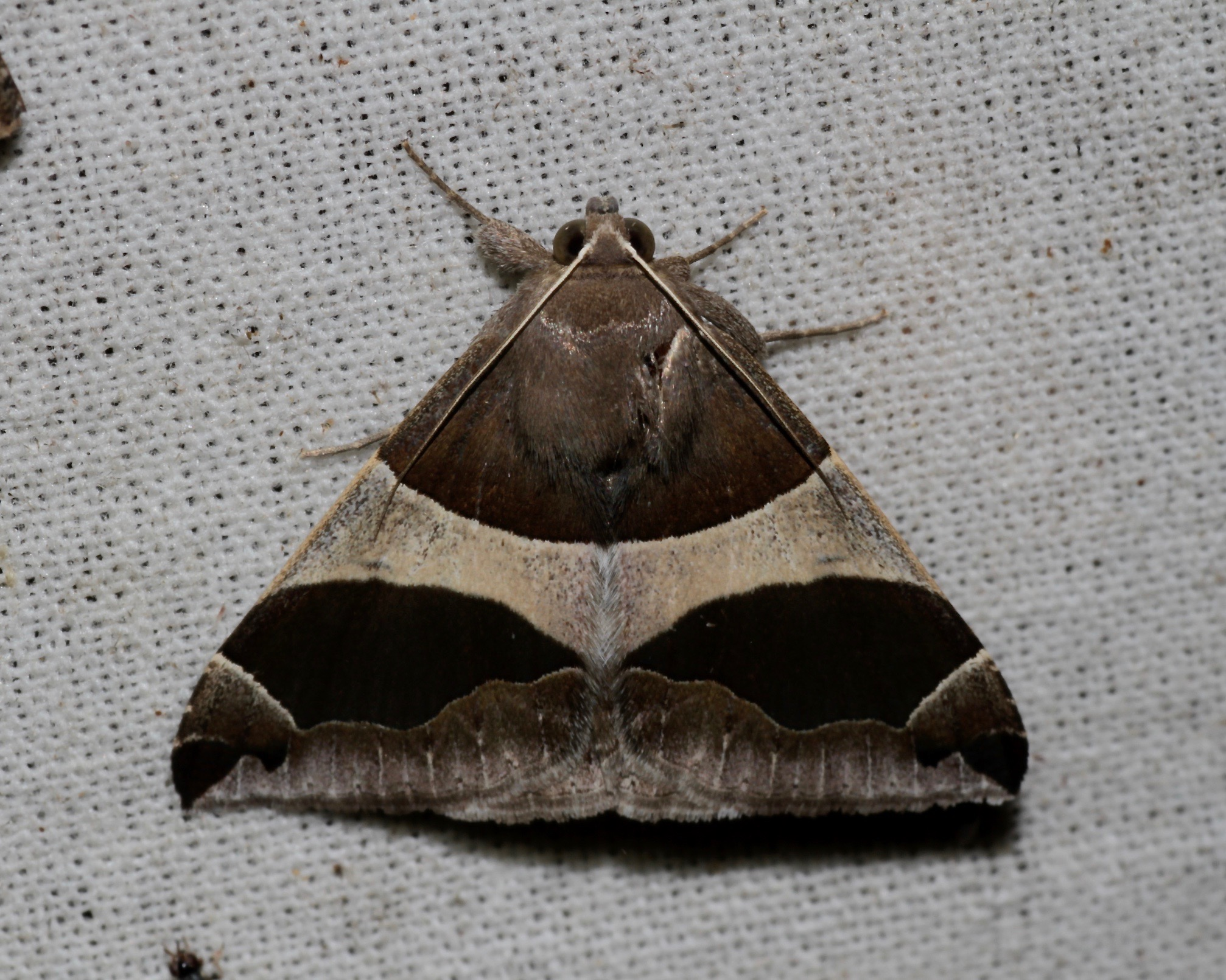 South Africa, Kwazulu Natal, Mhlopeni Nature Reserve.